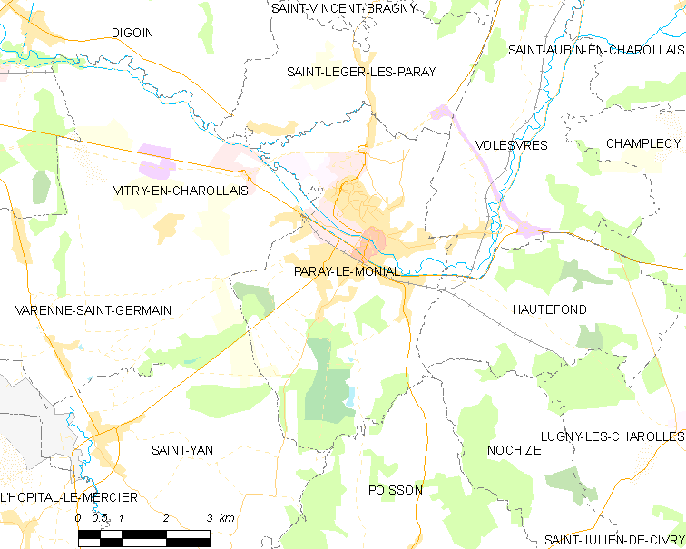 Map of French municipality